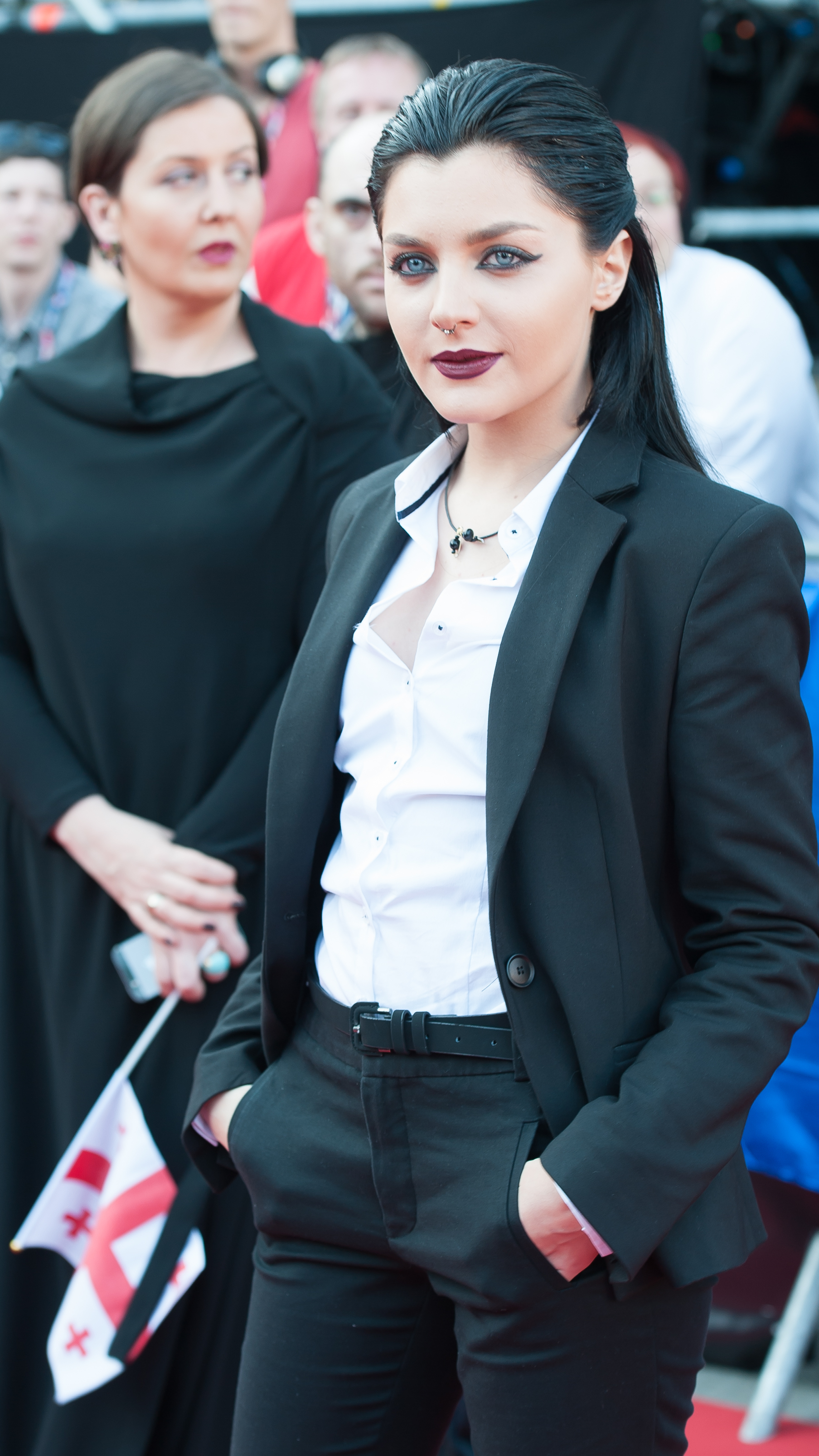 Eurovision Song Contest Vienna 2015: Nina Sublatti, Georgia